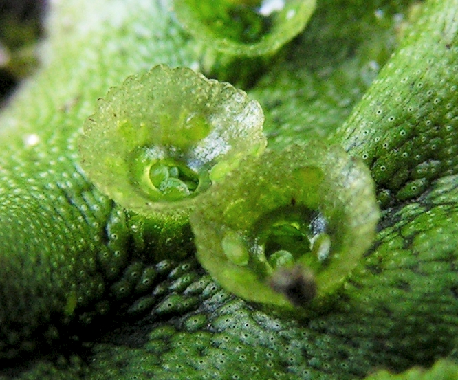 Marchantia polymorpha. Moscow region, Russia.